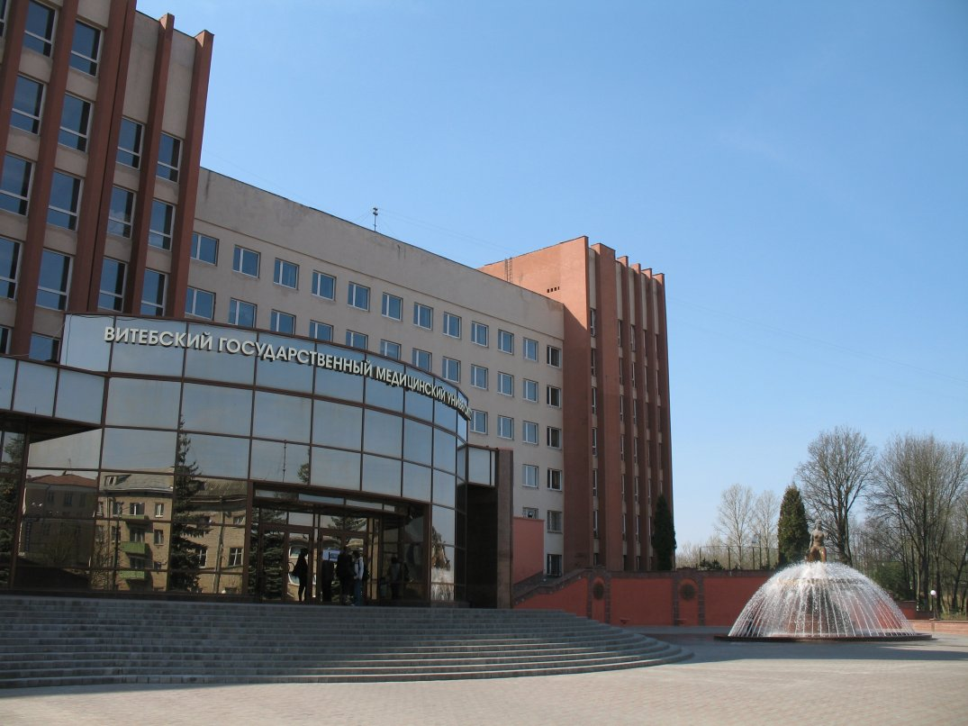 Front view of the Vitebsk Medical University, in Vitebsk, Belarus.